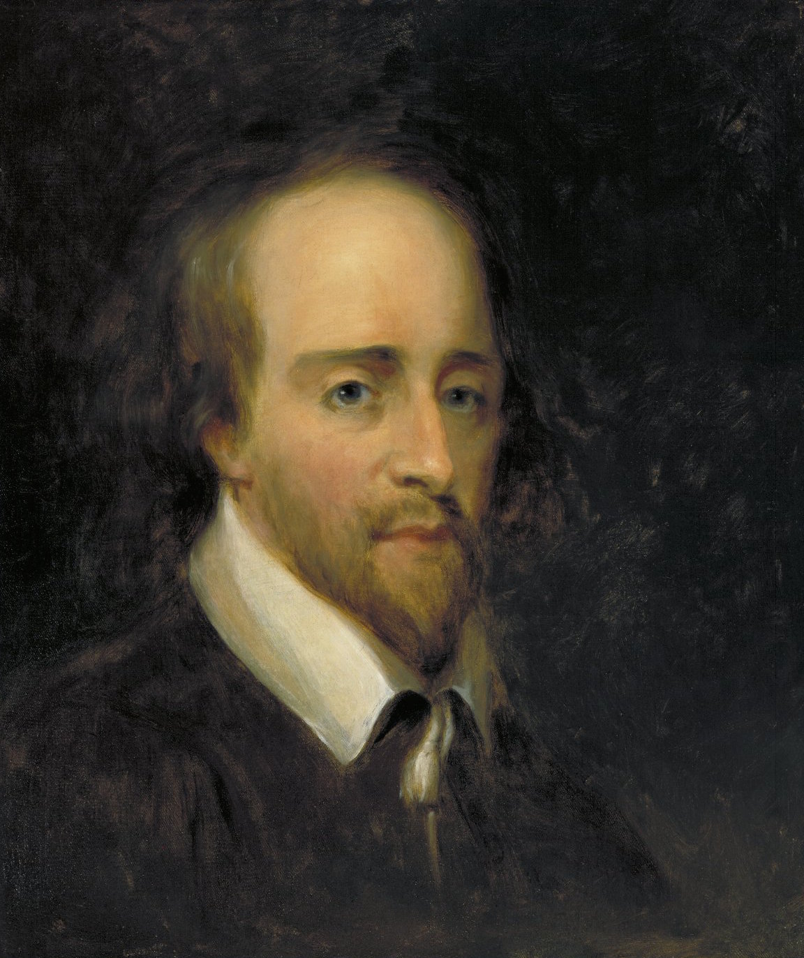 Thomas Sully's "Three Thousand Dollar portrait of Shakespeare"